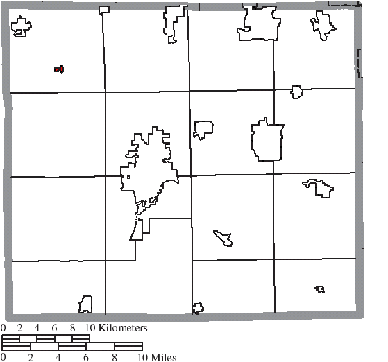 Map of the municipal and township boundaries of Wayne County, Ohio, United States, as of the 2000 census, with the location of the village of Congress highlighted. Township borders are shown only in unincorporated areas in order to differentiate incorporated and unincorporated areas more clearly.